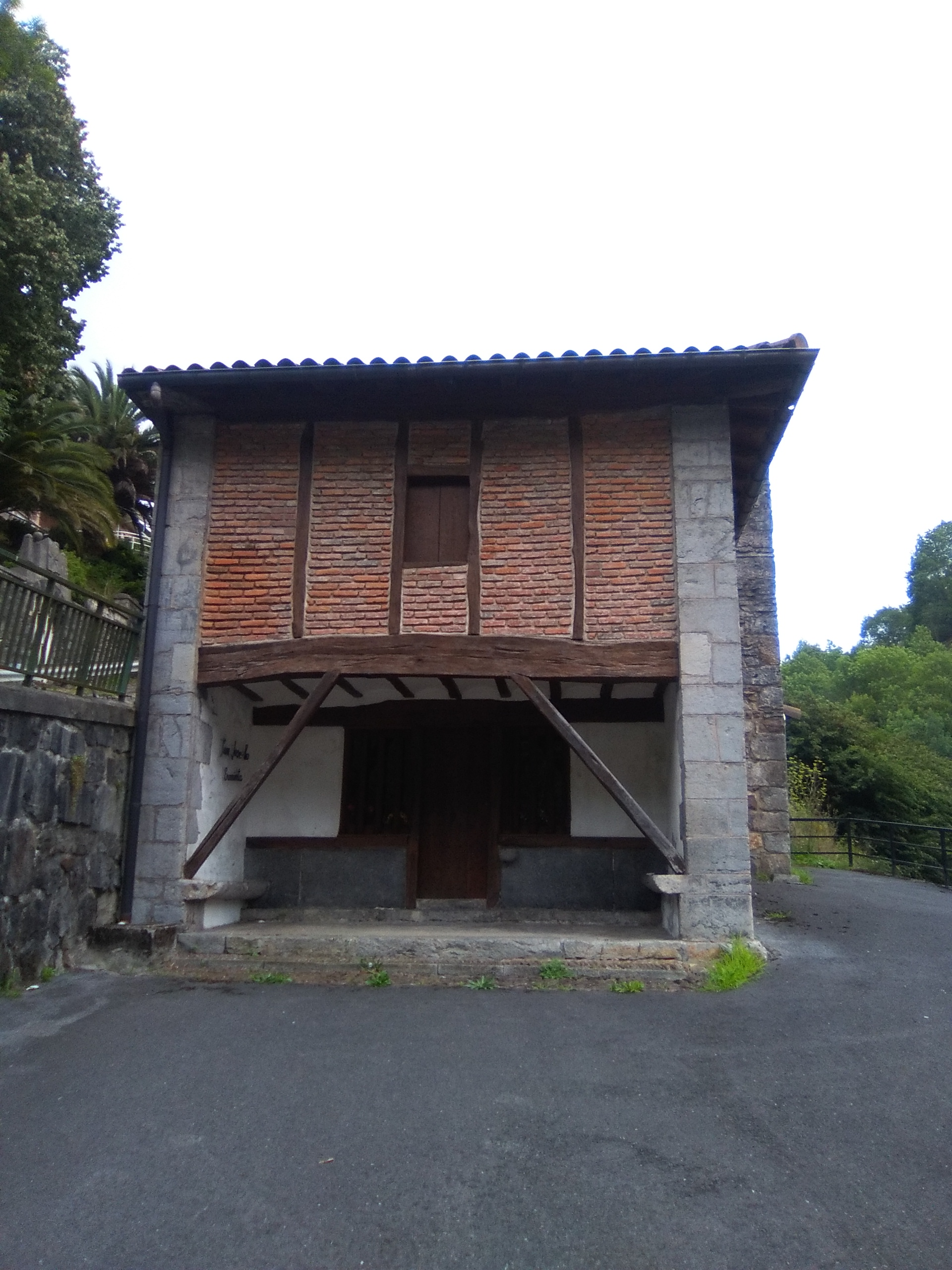 San Joseph hermitage, Belauntza. Gipuzkoa, Basque Country.